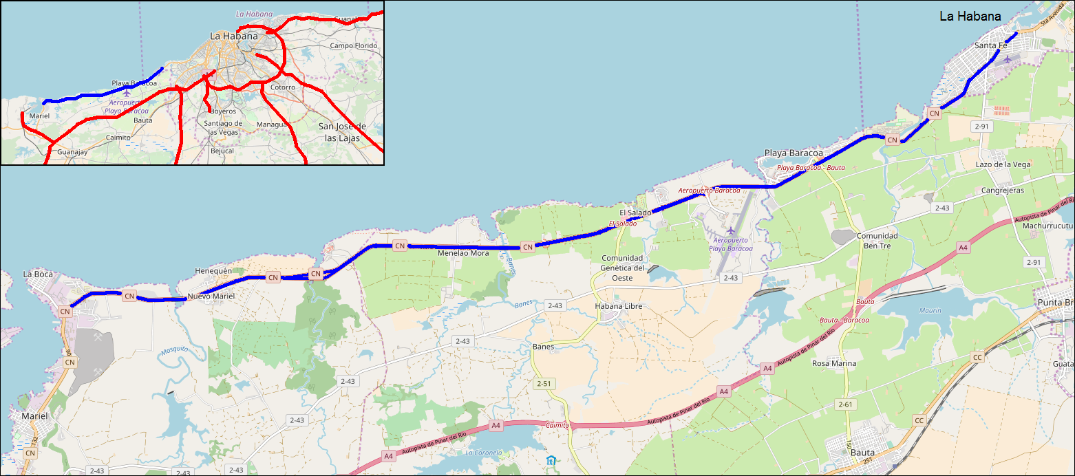 This map may be incomplete, and may contain errors. Don't rely solely on it for navigation.